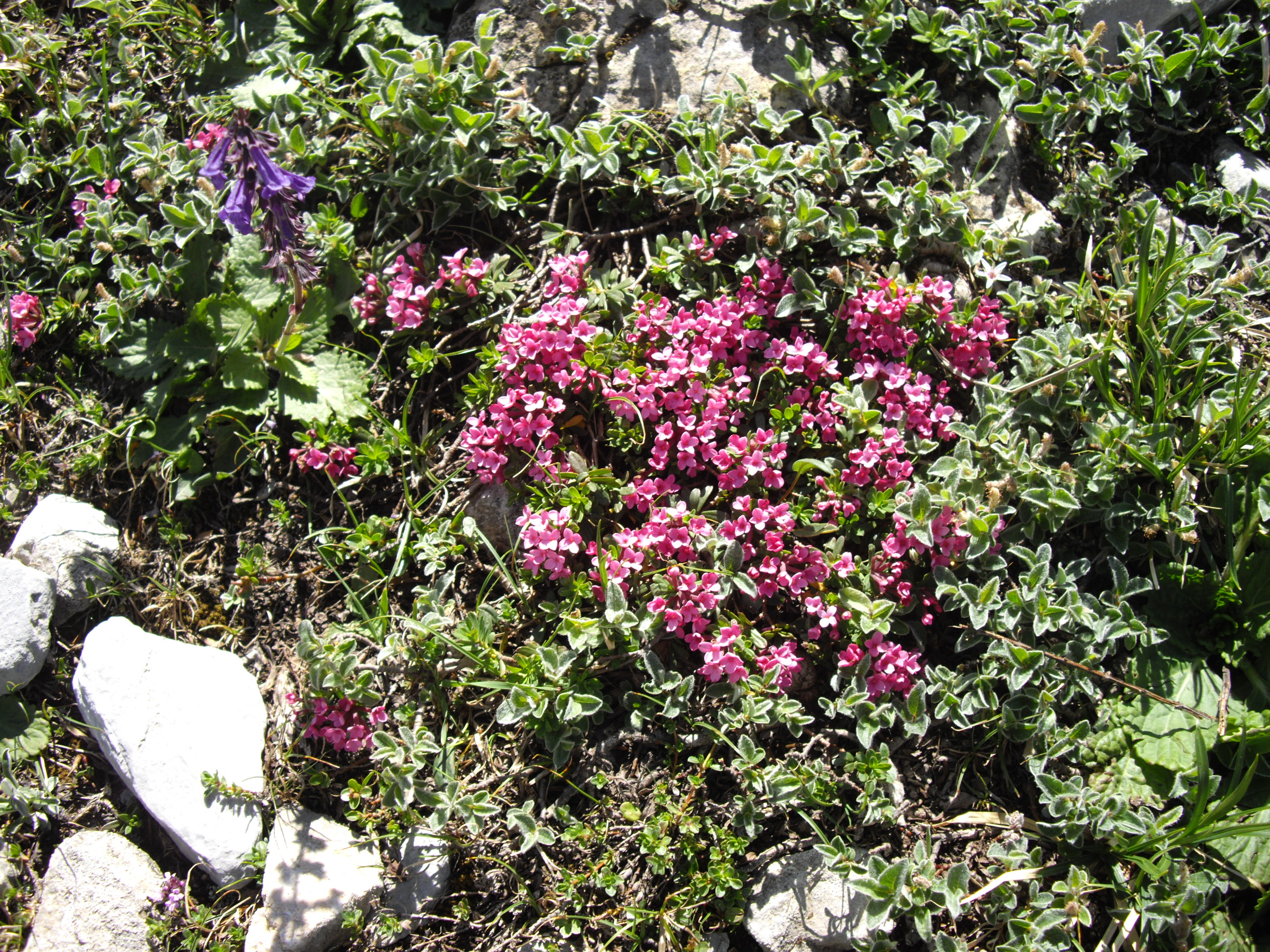 Daphne cneorum (rose) with Salix pyrenaica (around) and Horminum pyrenaicum (violet).